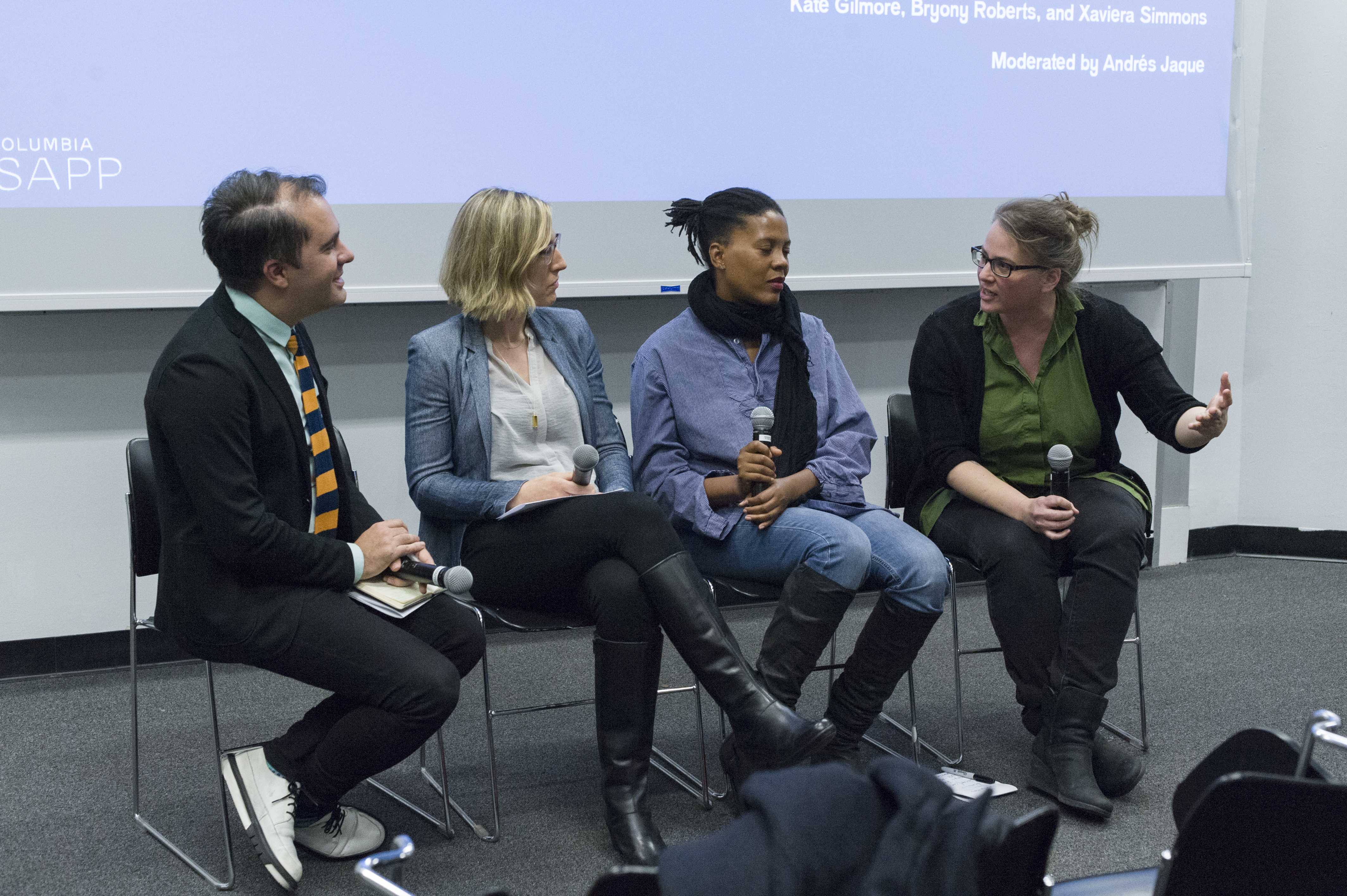 Andrés Jaque, Bryony Roberts, Xaviera Simmons, and Kate Gilmore discuss at the Performing History event at Columbia GSAPP